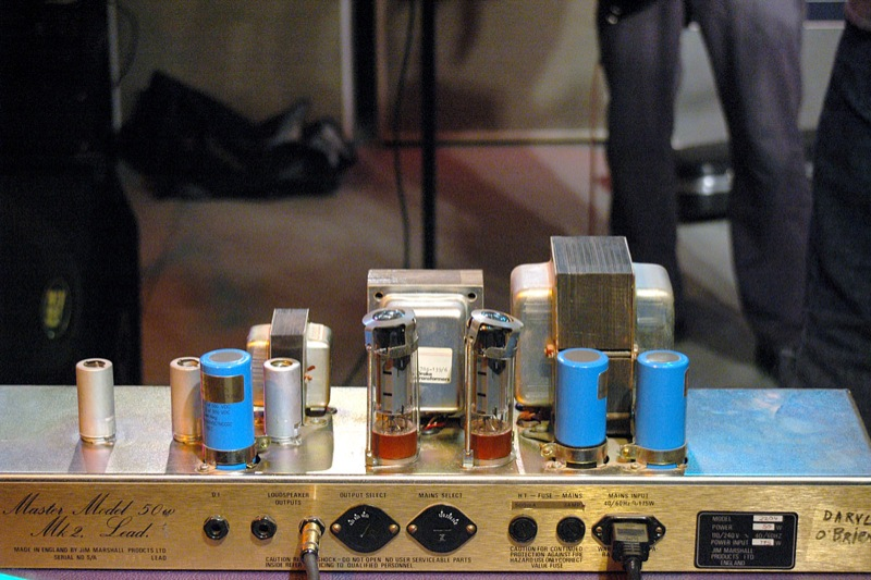 Marshall Master Model 50W Mk2 Lead chassis